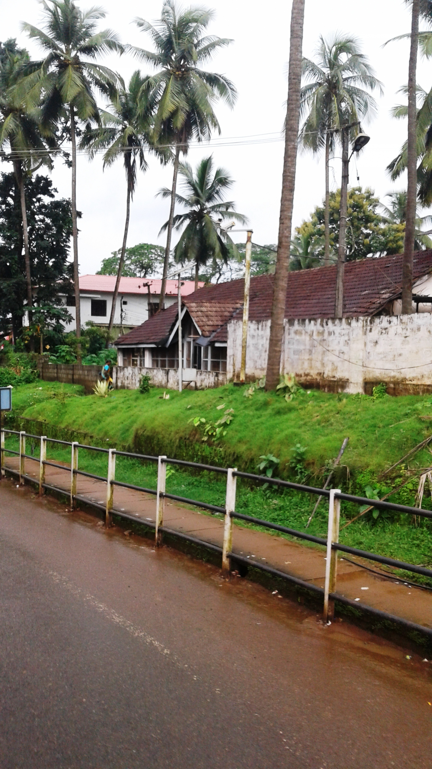 Police Station area, Sulllia, Dakshina Kannada district, Karnataka state, India.